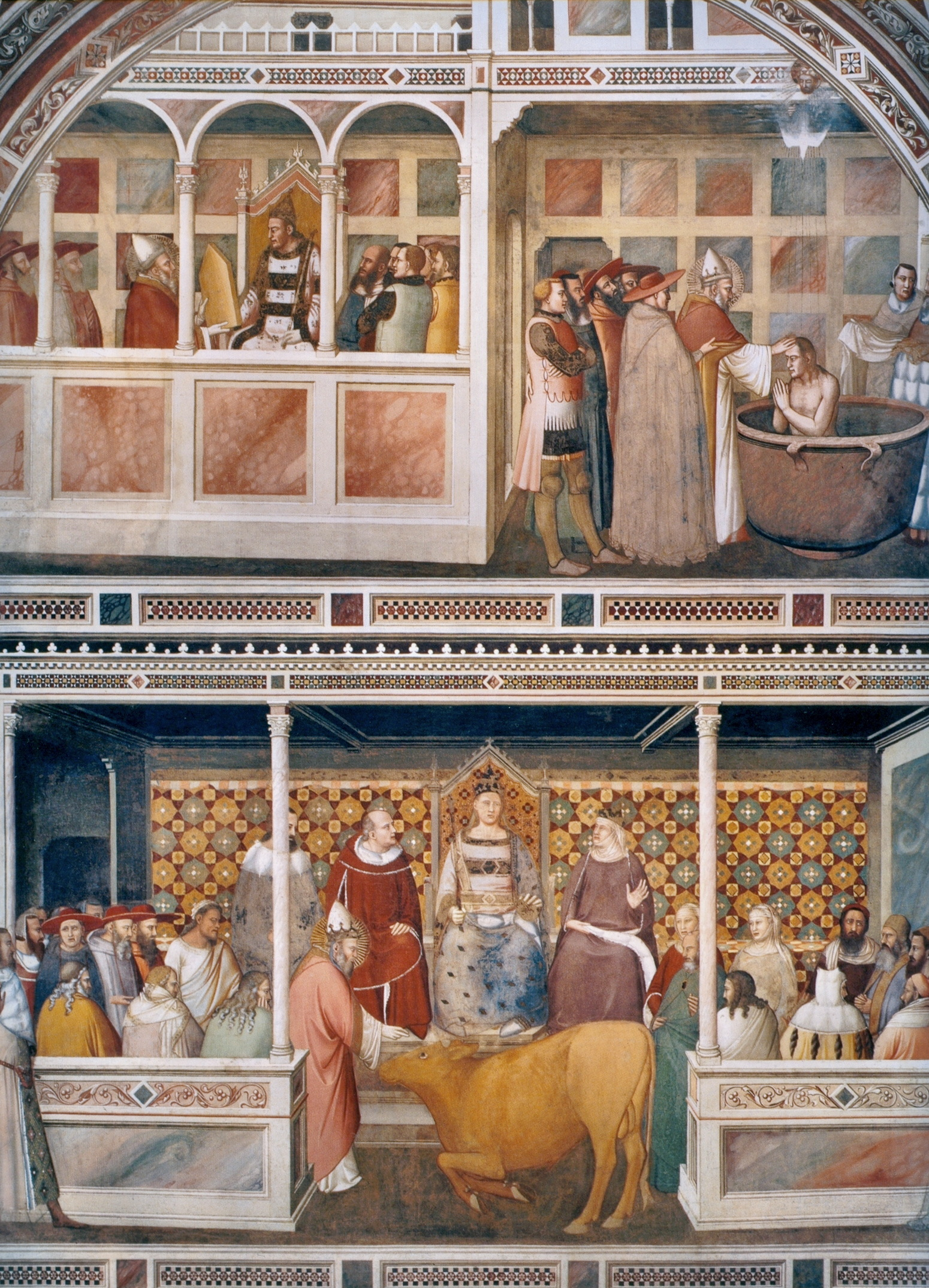 Maso_di_Banco1335-40_Fresco_from_Santa_Croce,_Florence